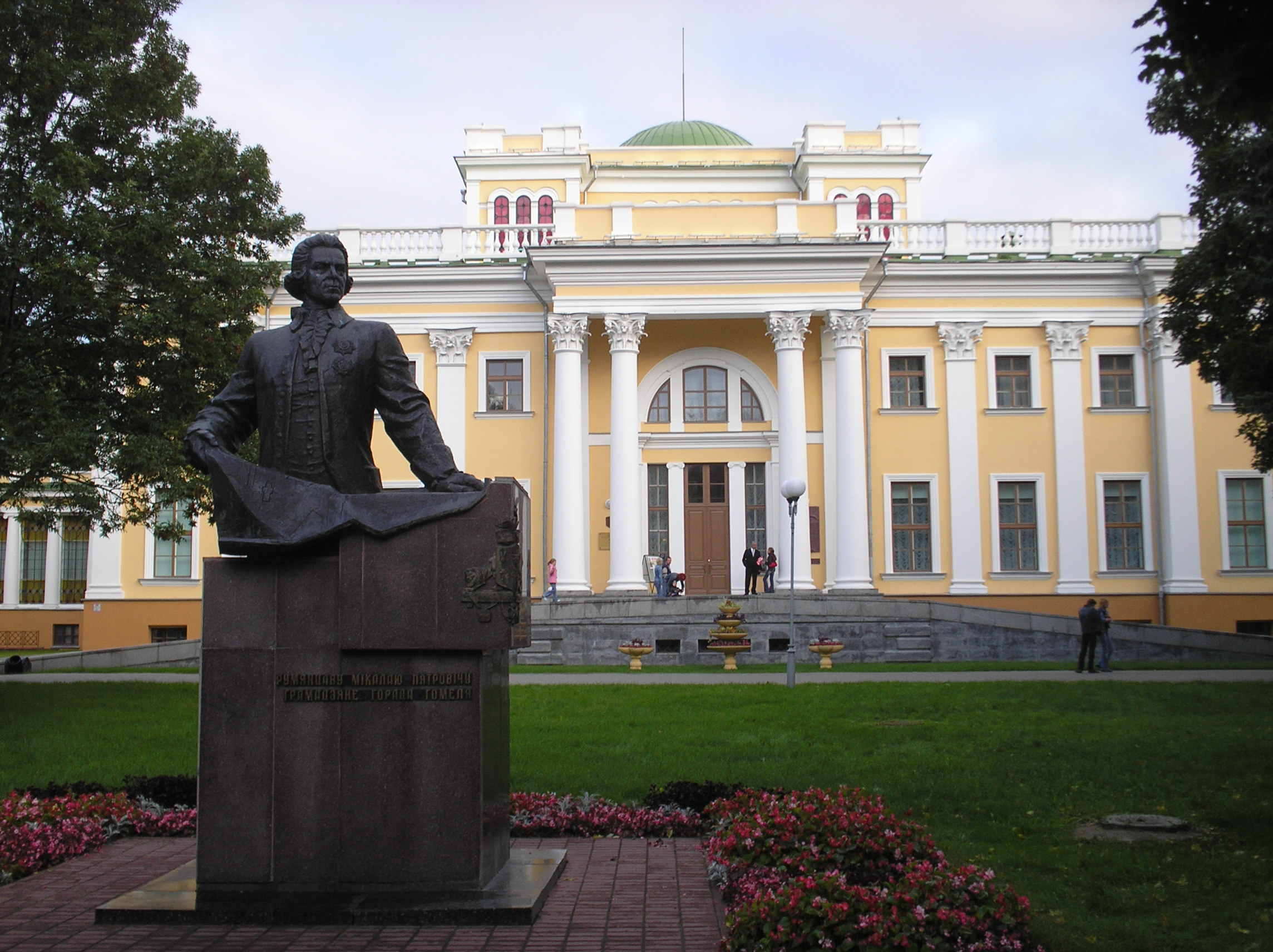 This photo of the palace was taken in summer. The frontal view.